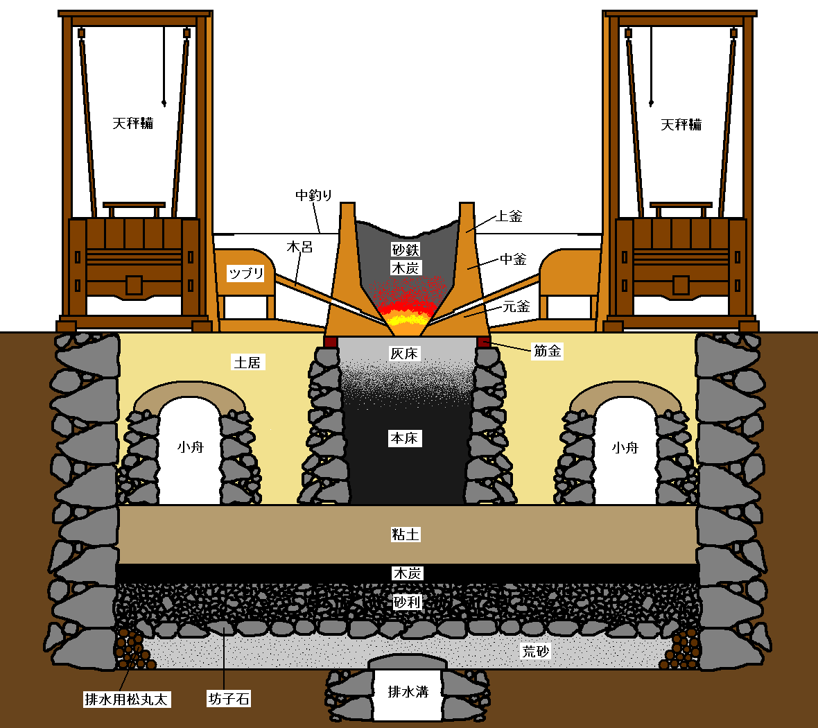 The structural drawing of the "Eidai Tatara" which was completed in the 18th century.